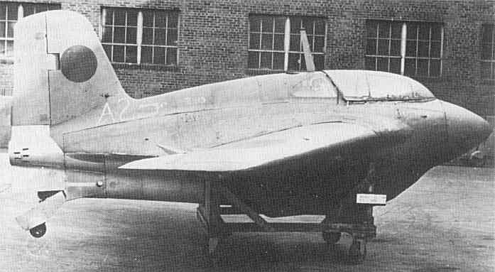 The Mitsubishi J8M Shusui was a rocket-powered interceptor aircraft closely based on the German Me 163 Komet.